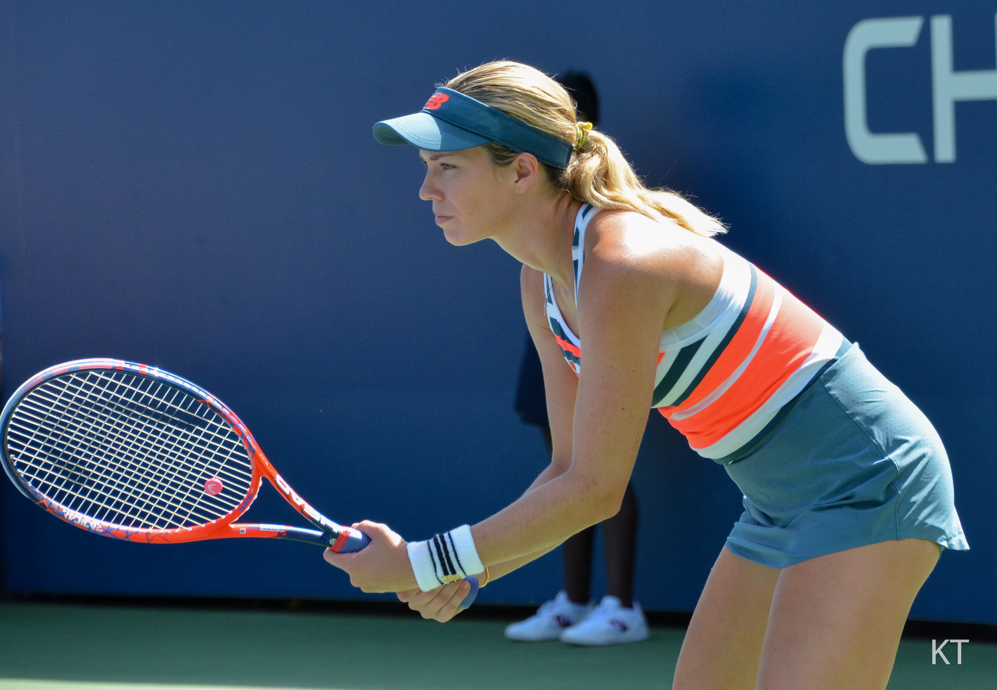 Day 4 of US Open 2018.